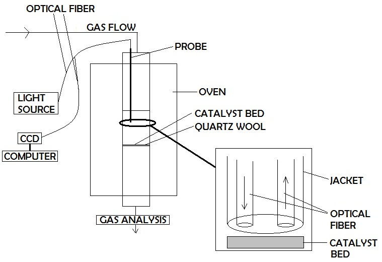 Block diagram of operando apparatus for heterogeneous catalysis